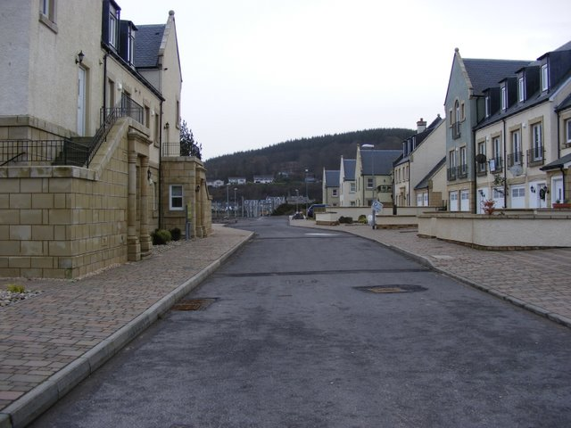 Harbourside at Kip Marina New housing on the breakwater at the marina. The houses in the distance are at Main Street and Commoncraig.